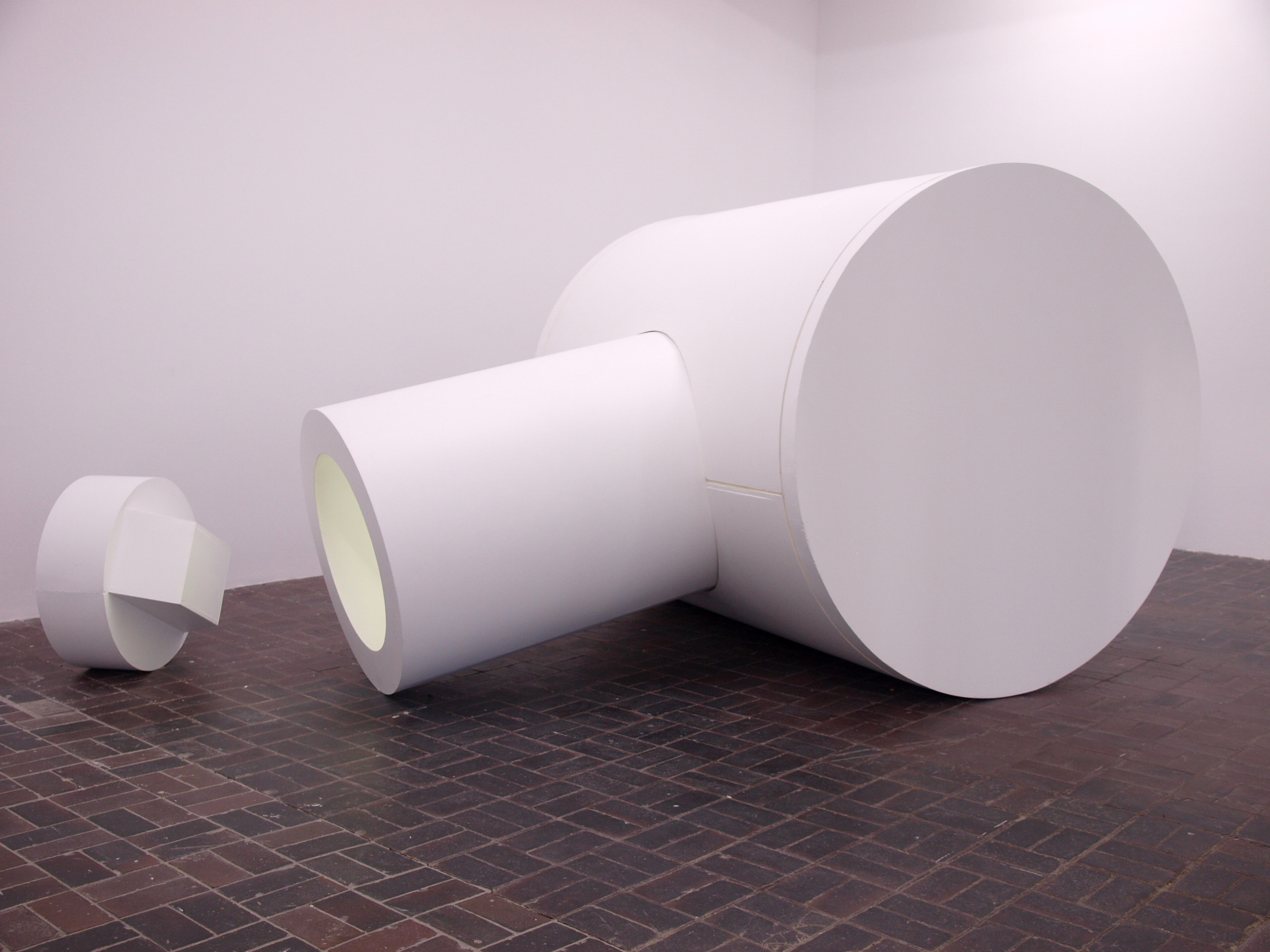 Cell No. 5 /1991/ Wood, cardboard, white dispersion paint, neon tube, perspex, 147×Ø125×215; collection of Musée de Grenoble